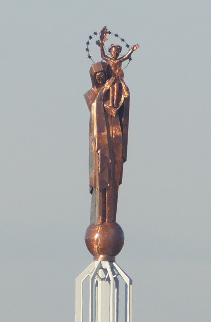 Statue in Baillet-en-France (Val d'Oise, Île-de-France, France).